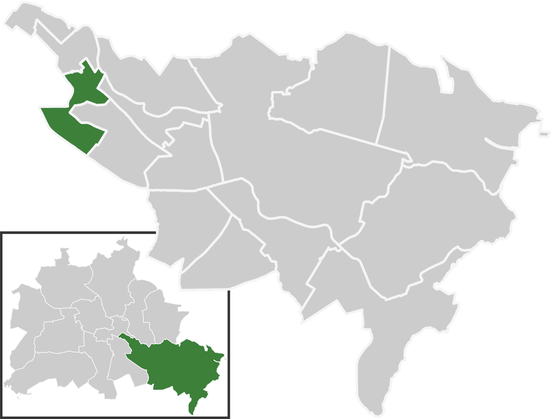 Localitie Baumschulenweg in borough Treptow-Köpenick of Berlin.